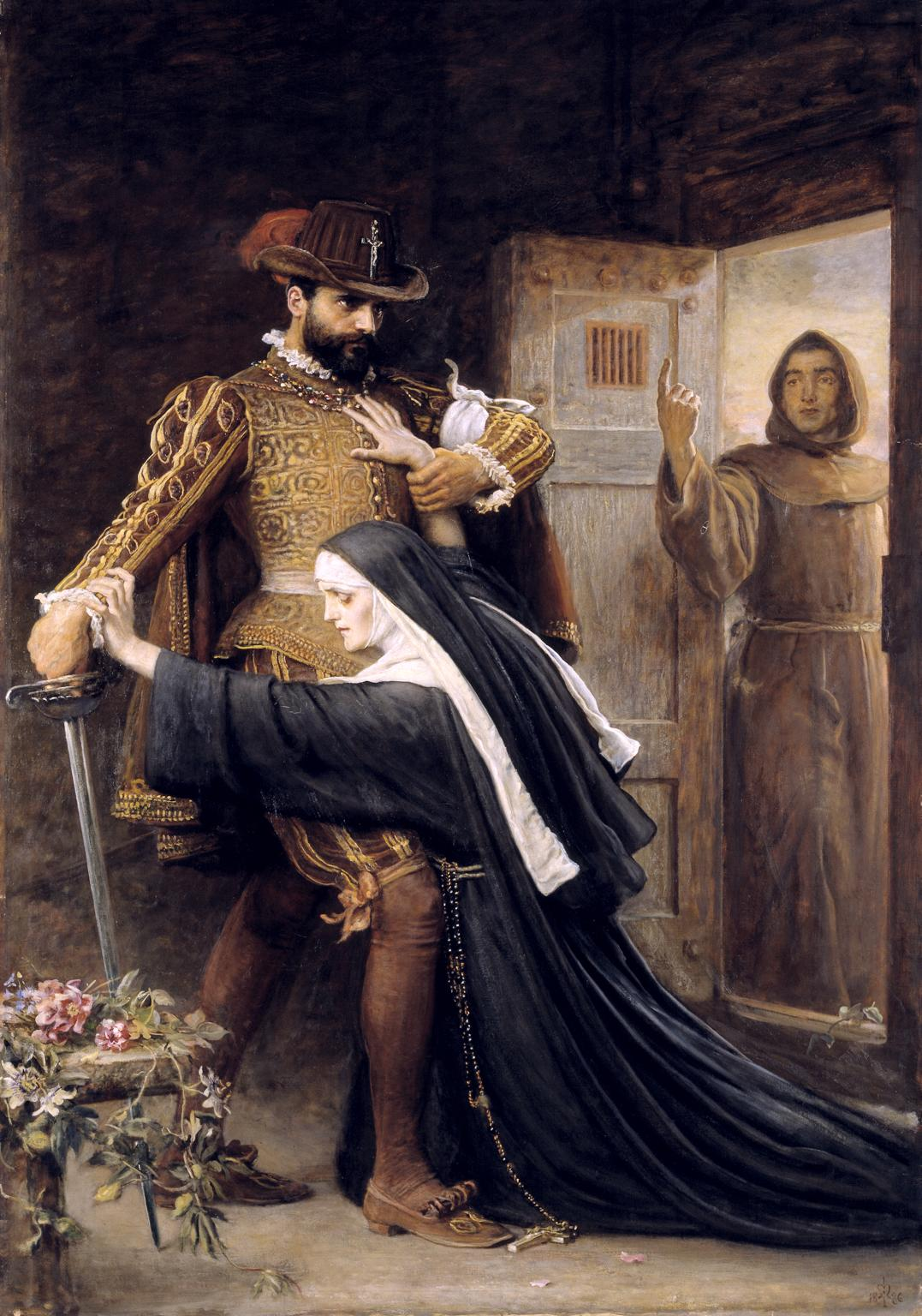 Mercy: St Bartholomew's Day, 1572, 1886, Sir John Everett Millais, Bt 1829-1896. Presented by Sir Henry Tate, 1894.